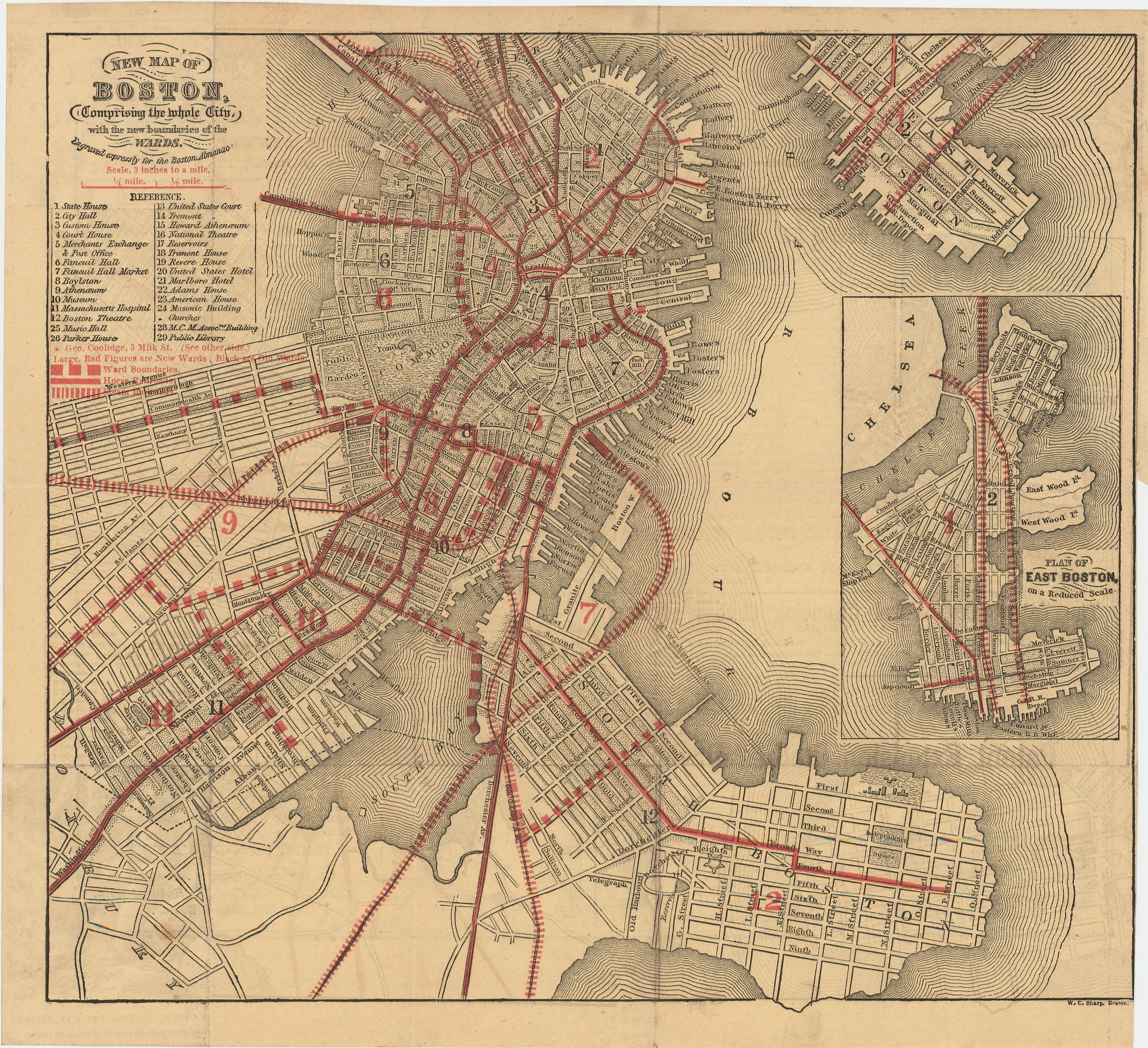 1866 map of Boston showing ward boundaries, steam railroads, and horsecar routes